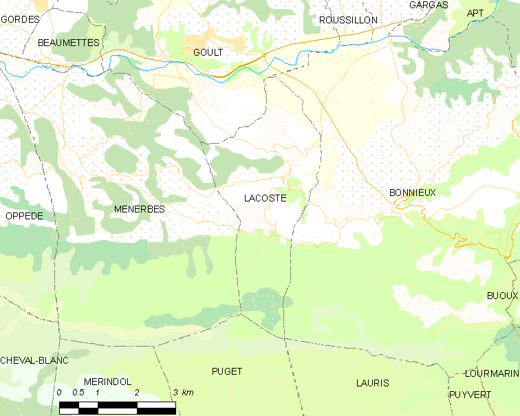 Map of French municipality Lacoste